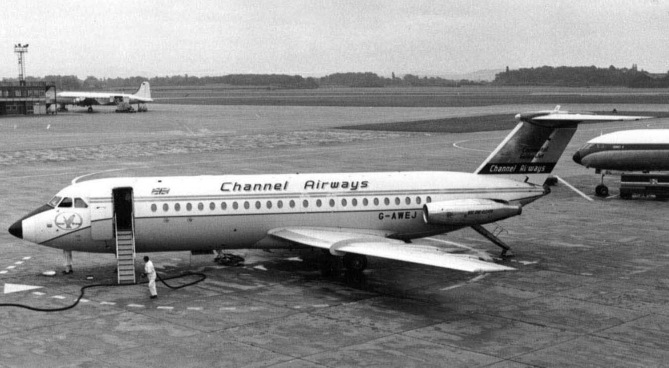 BAC 1-11 408 of Channel Airways at Manchester Airport